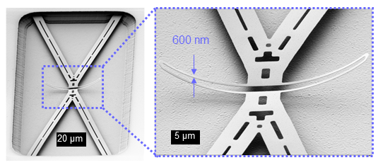 Electron microscope pictures of X-shaped TiN beam above TiN ground plate (height difference 2.5 µm). Due to the clip in the middle an increasing reset force develops, when the beam bends downwards. The right figure shows a magnification of the clip in the middle, compare M. Birkholz, K.-E. Ehwald, T. Basmer et al. (2013). "Sensing glucose concentrations at GHz frequencies with a fully embedded Biomicro-electromechanical system (BioMEMS)". J. Appl. Phys. 113: 244904.